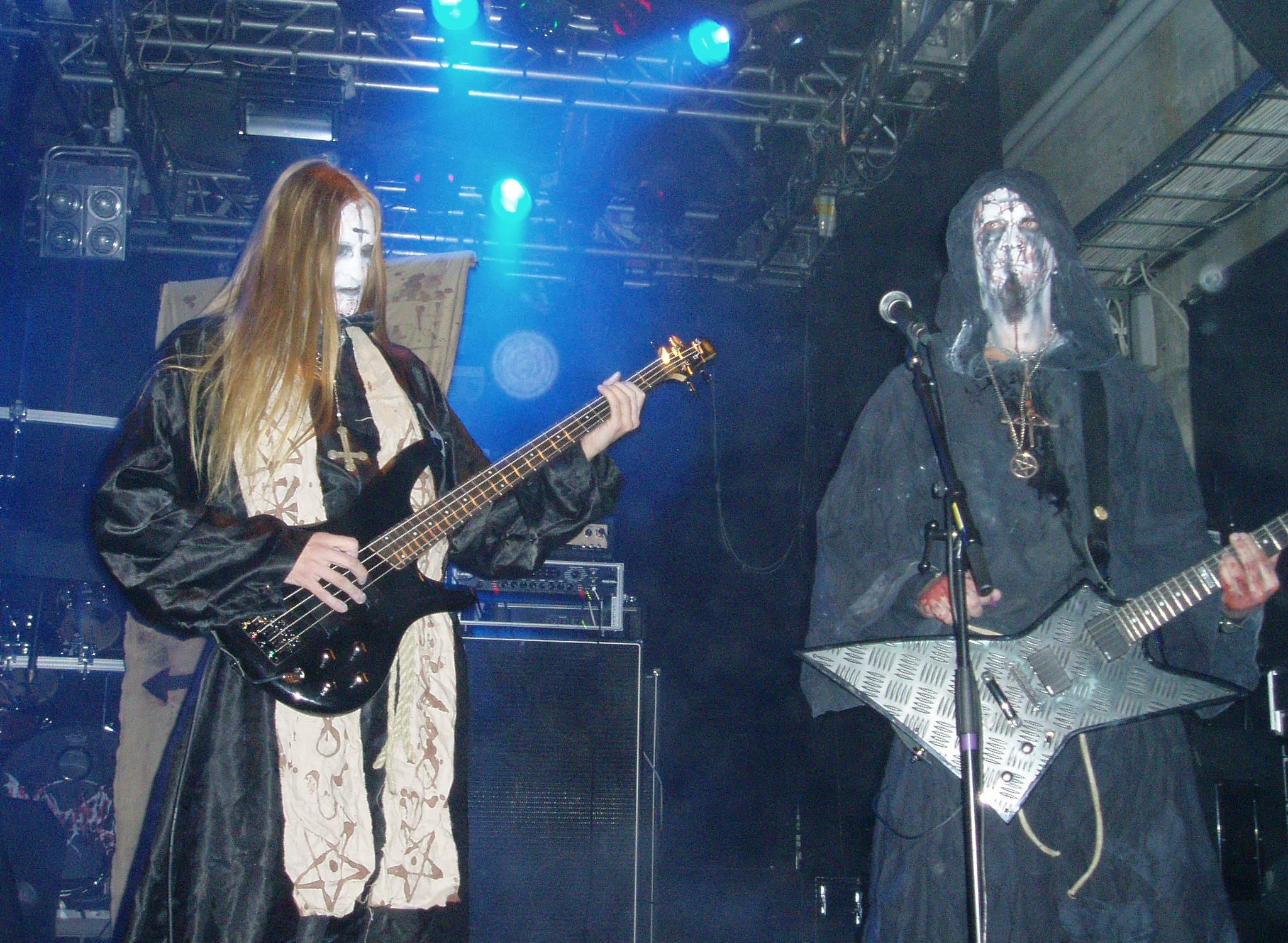 Finnish black metal band Behexen @ Nosturi 20.11.2009.